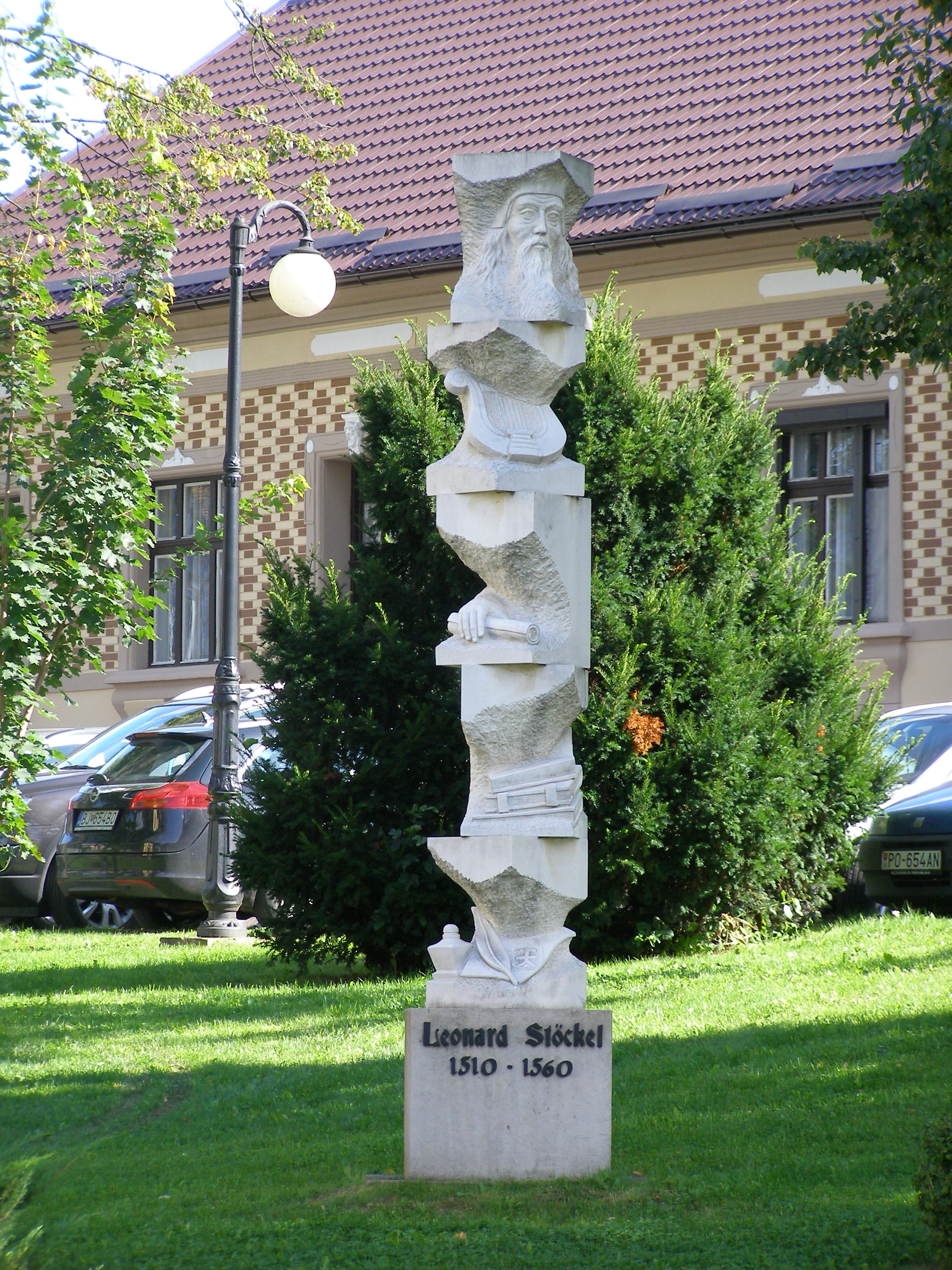 Bardejov - monument of Leonard Stöckel